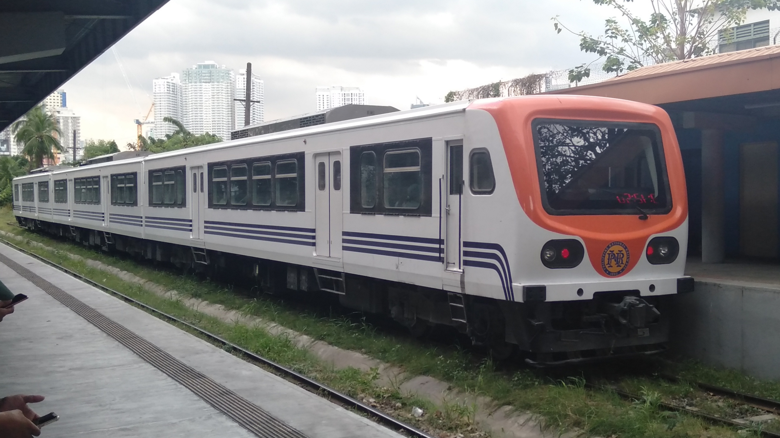 A Hyundai Rotem diesel multiple unit of Philippine National Railways in its livery as of 2020.